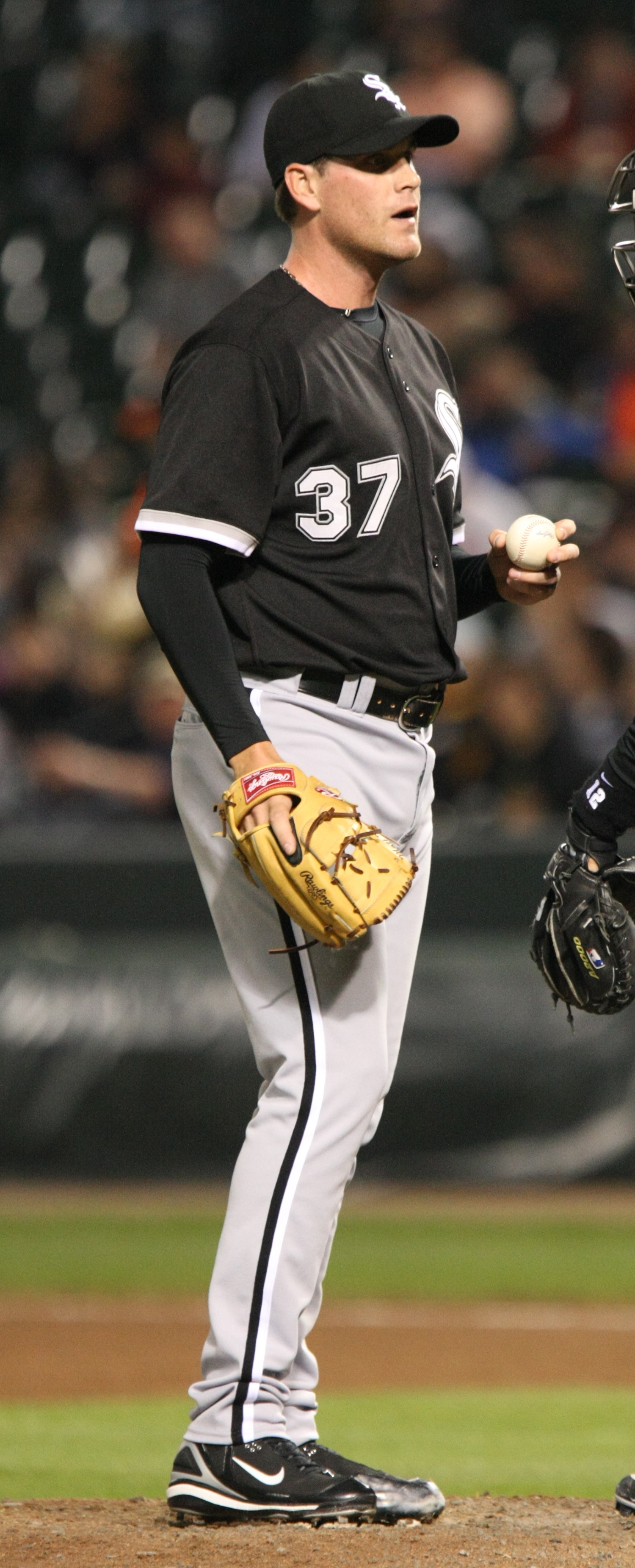 Matt Thornton